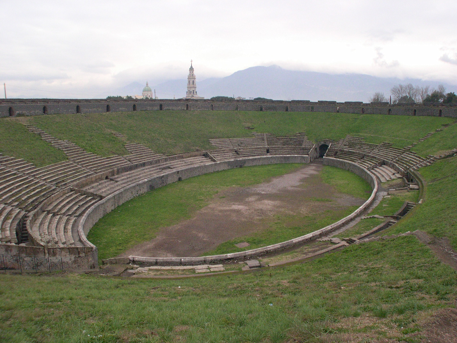 Interior of the amphitheatre at Pompeii, Italy.